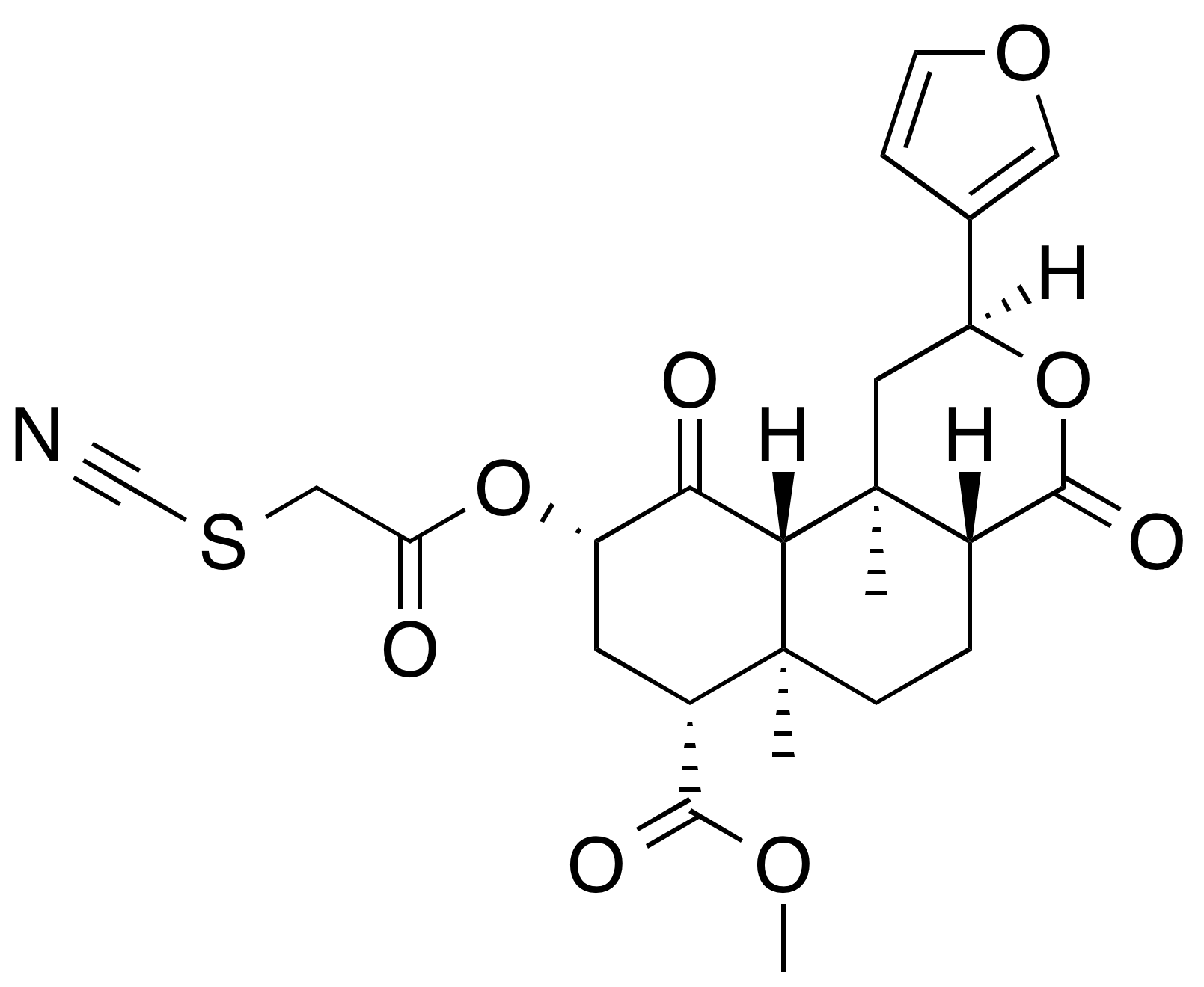 Skeletal structure of 22-Thiocyanatosalvinorin A (also called RB-64), an κ-opioid receptor agonist and G protein biased agonist related to Salvinorin A.